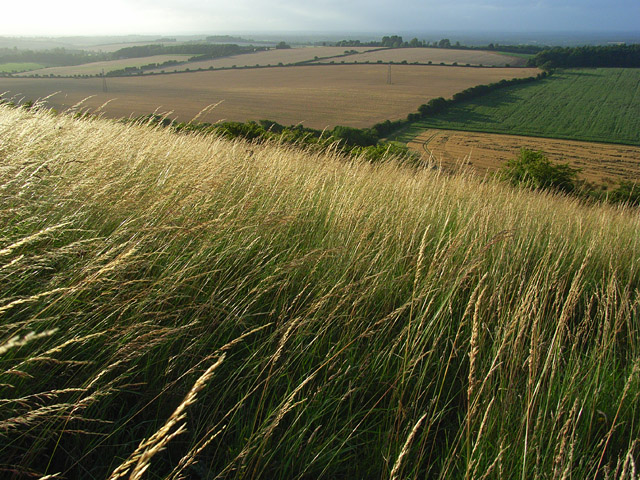 Downland, Kingsclere A view across arable fields from the steep grassland of Watership Down.